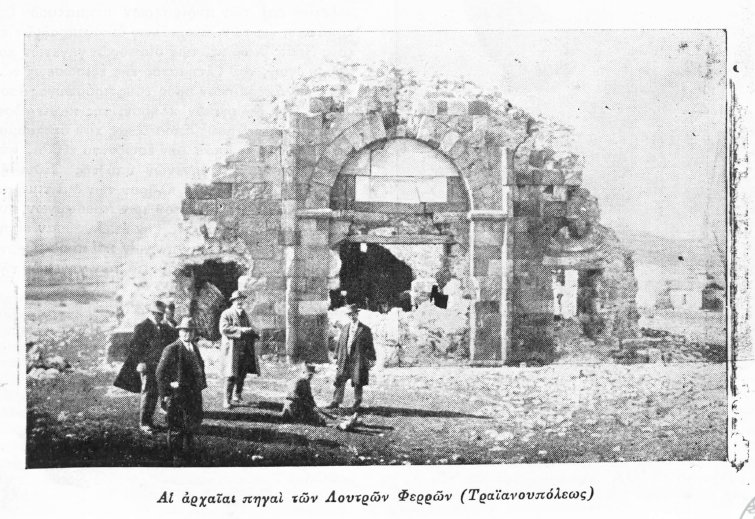 Han of Gazi Evrenos Bey, Traianoupolis, Evros, Greece.